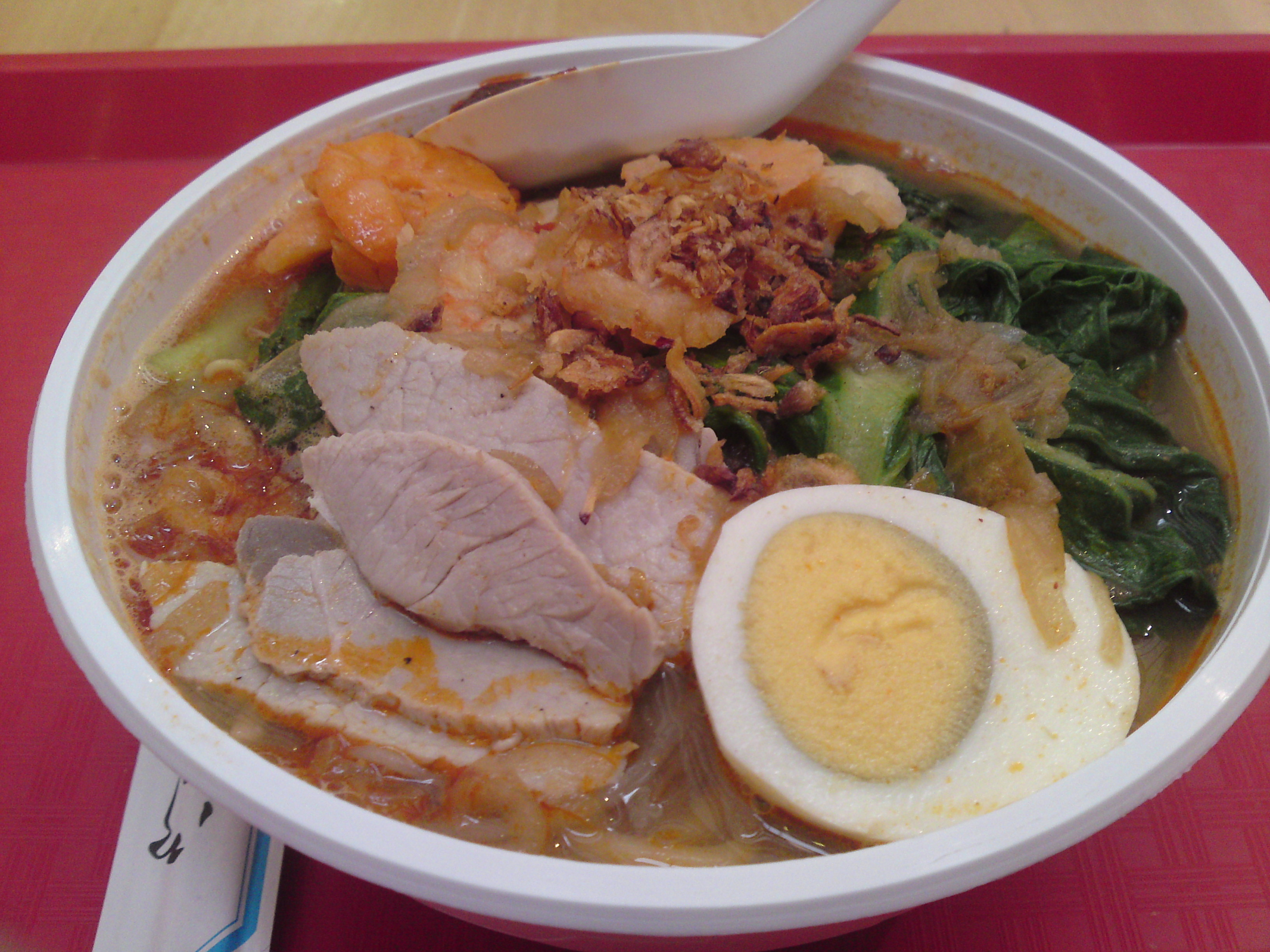 A dish of Prawn Hae Mee served in a Food Court in Sydney, Australia